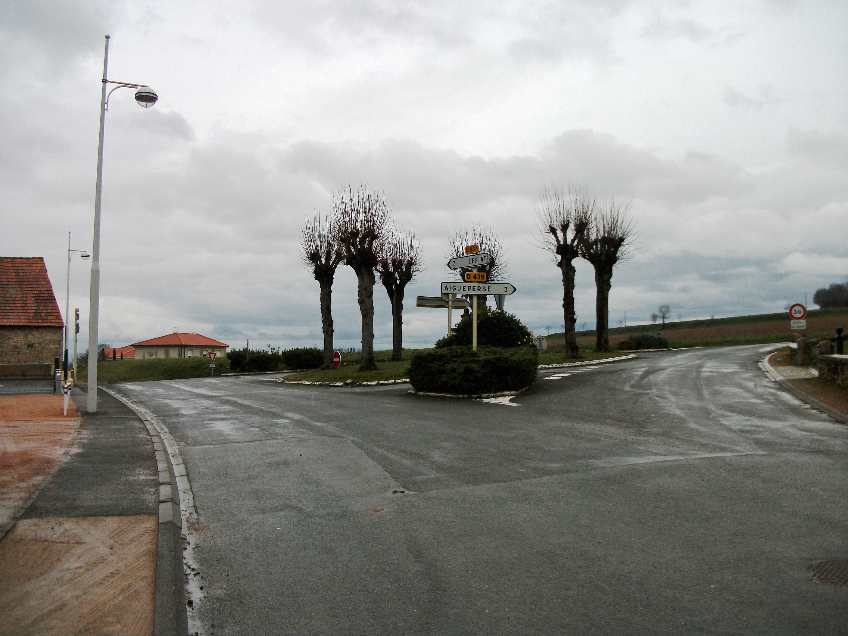 Intersection between departmental roads 93B (Effiat) and 439 (Aigueperse) in Vensat (Puy-de-Dôme) [10092]